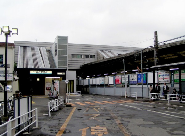 Keikyu Kanazawa Bunko station east entrance